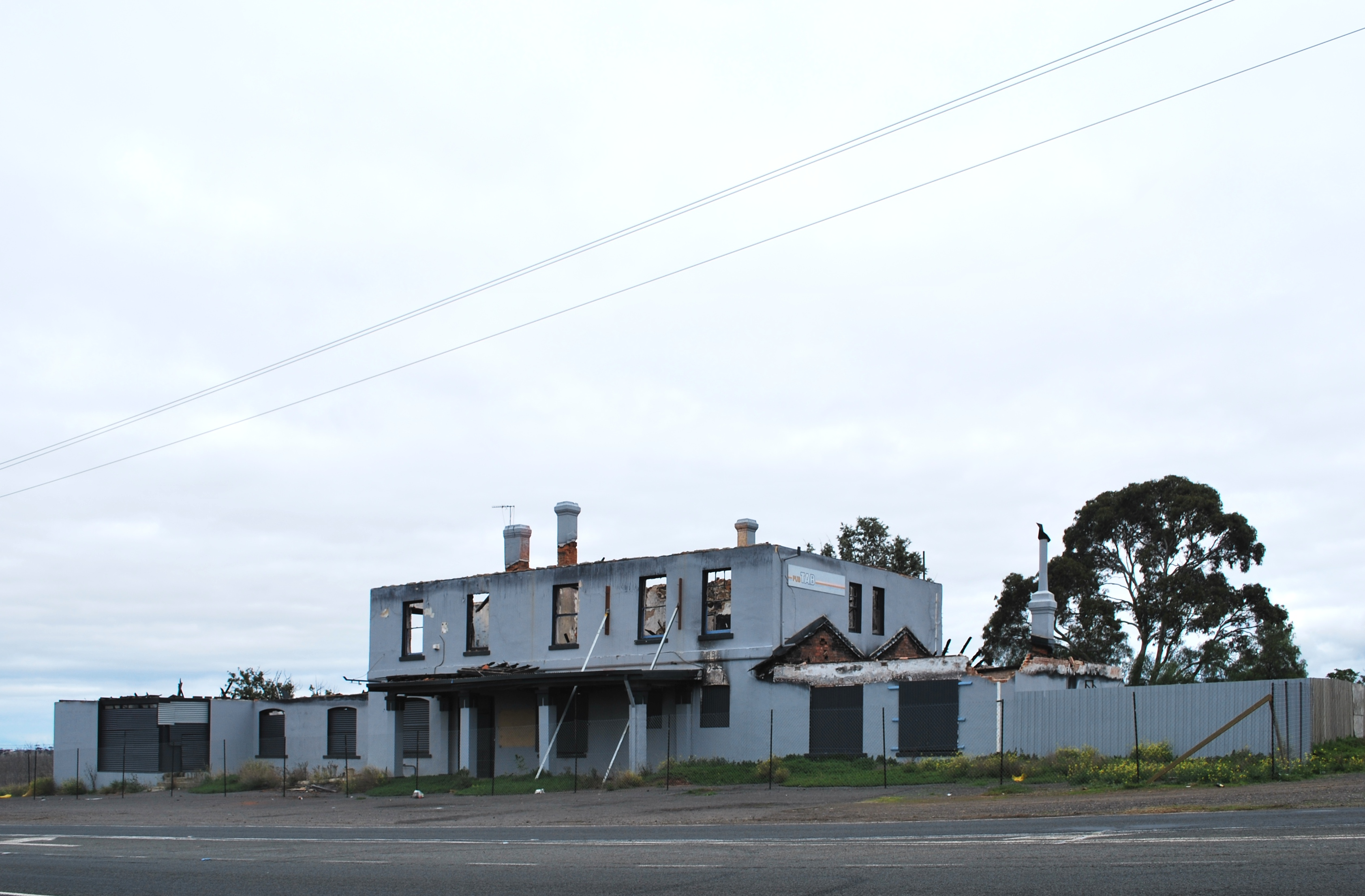 Ruins of the Diggers Rest Hotel at Diggers Rest, Victoria - destroyed by fire in 2008